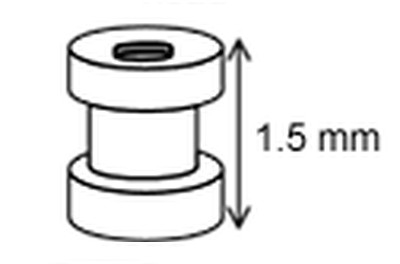 grommet